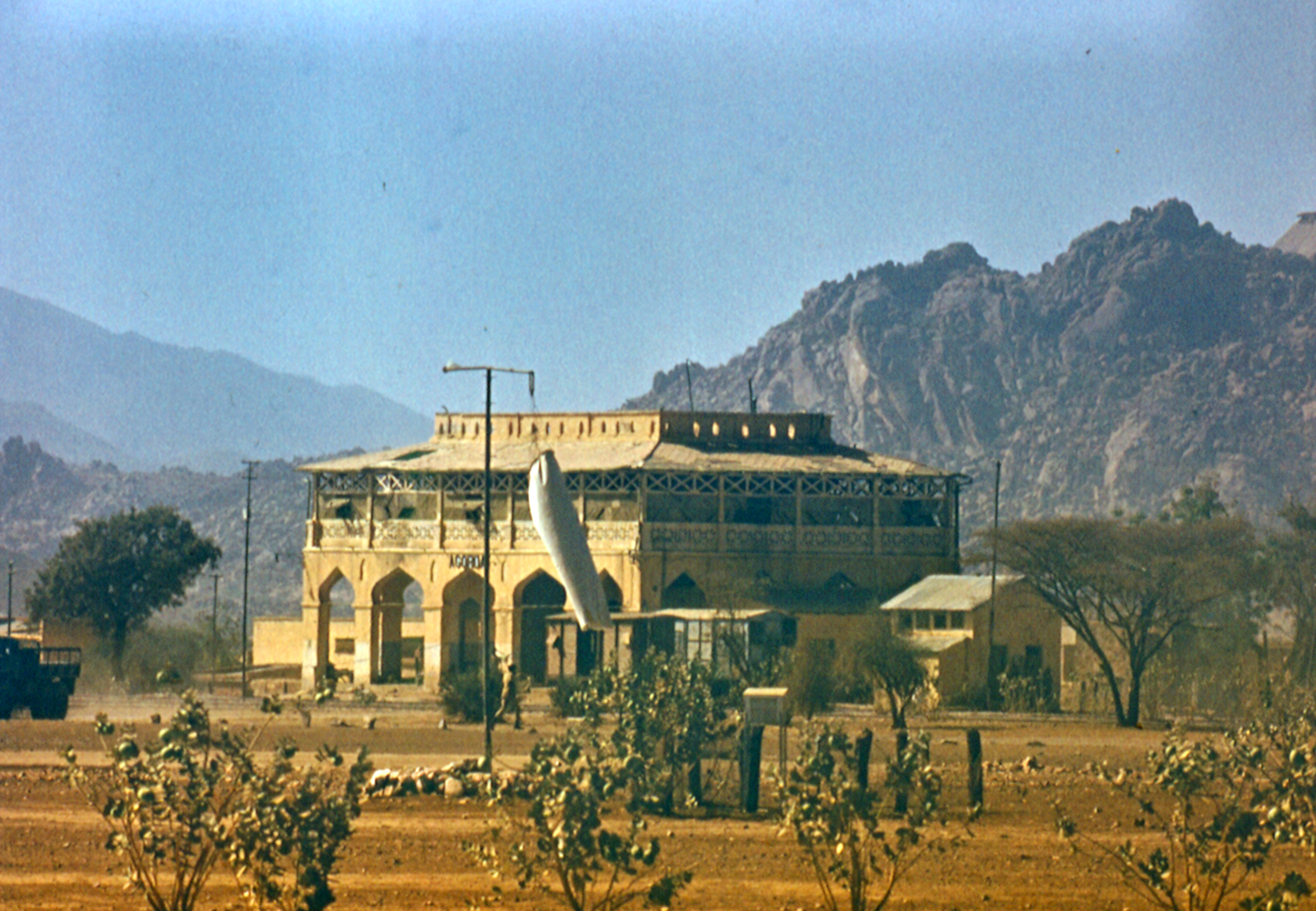 In Agordat Airport, 1982, Eritrea. The building is the former railway station.